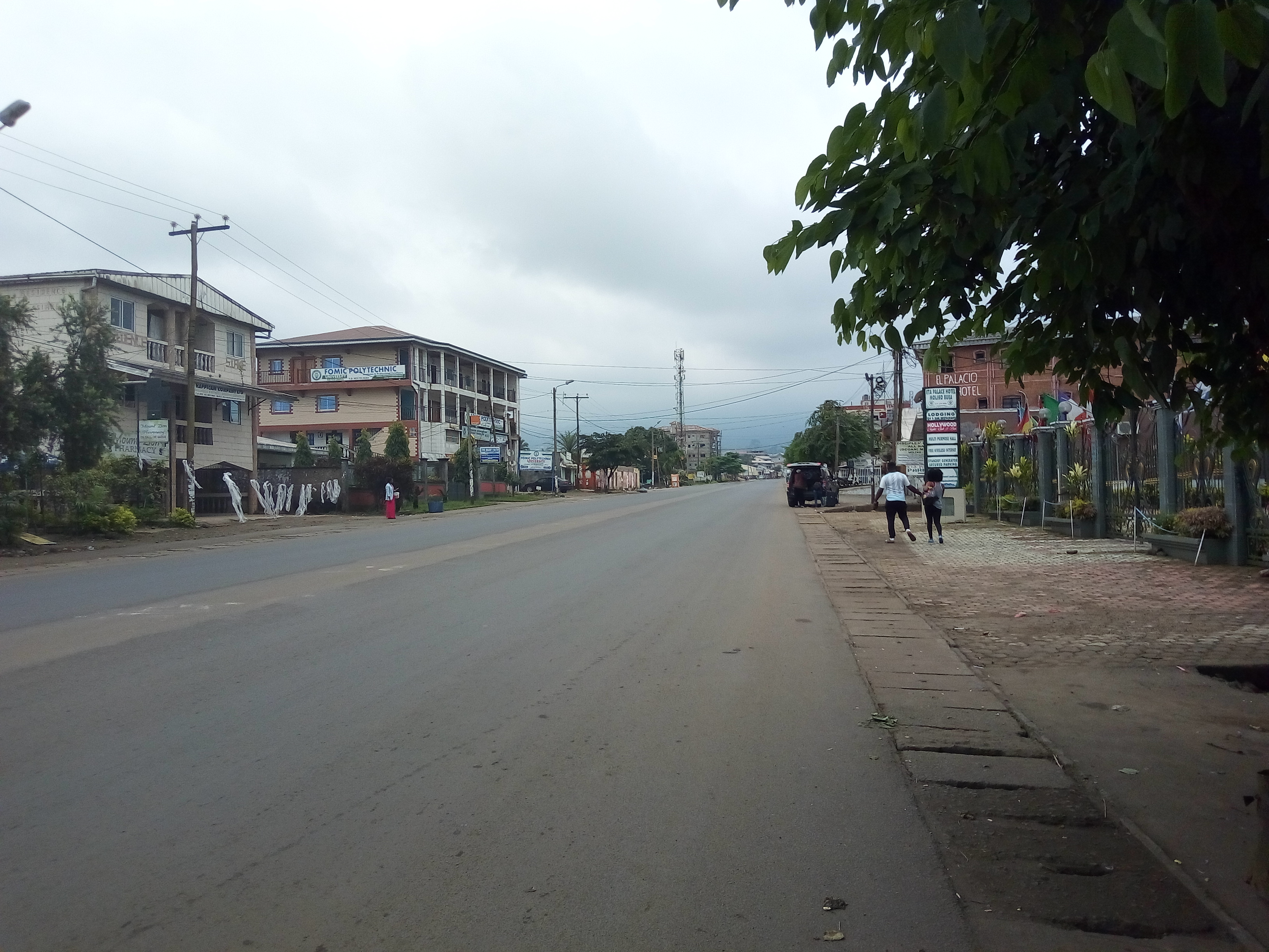 Street of Buea (SW Region Cameroon) on a Ghost town day